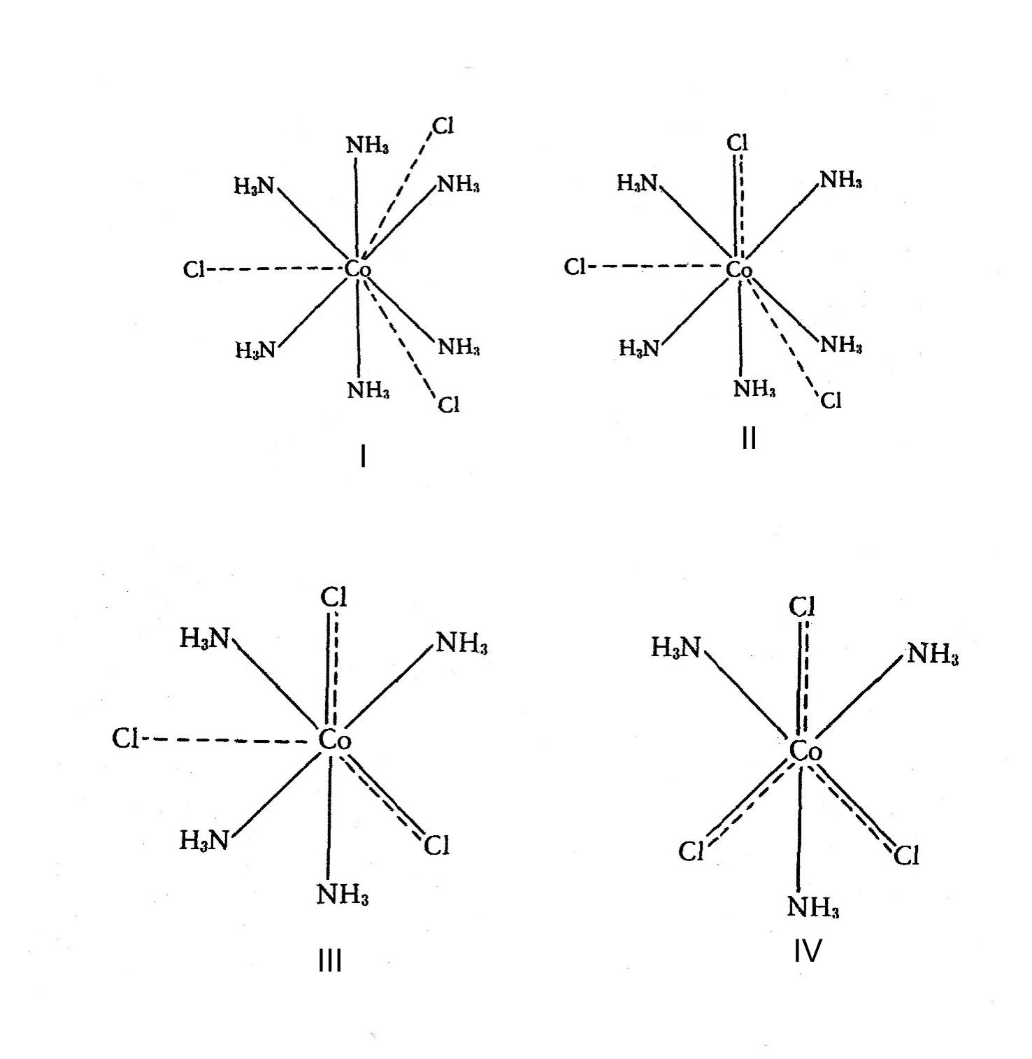 First structures of Co complexes proposed by Werner